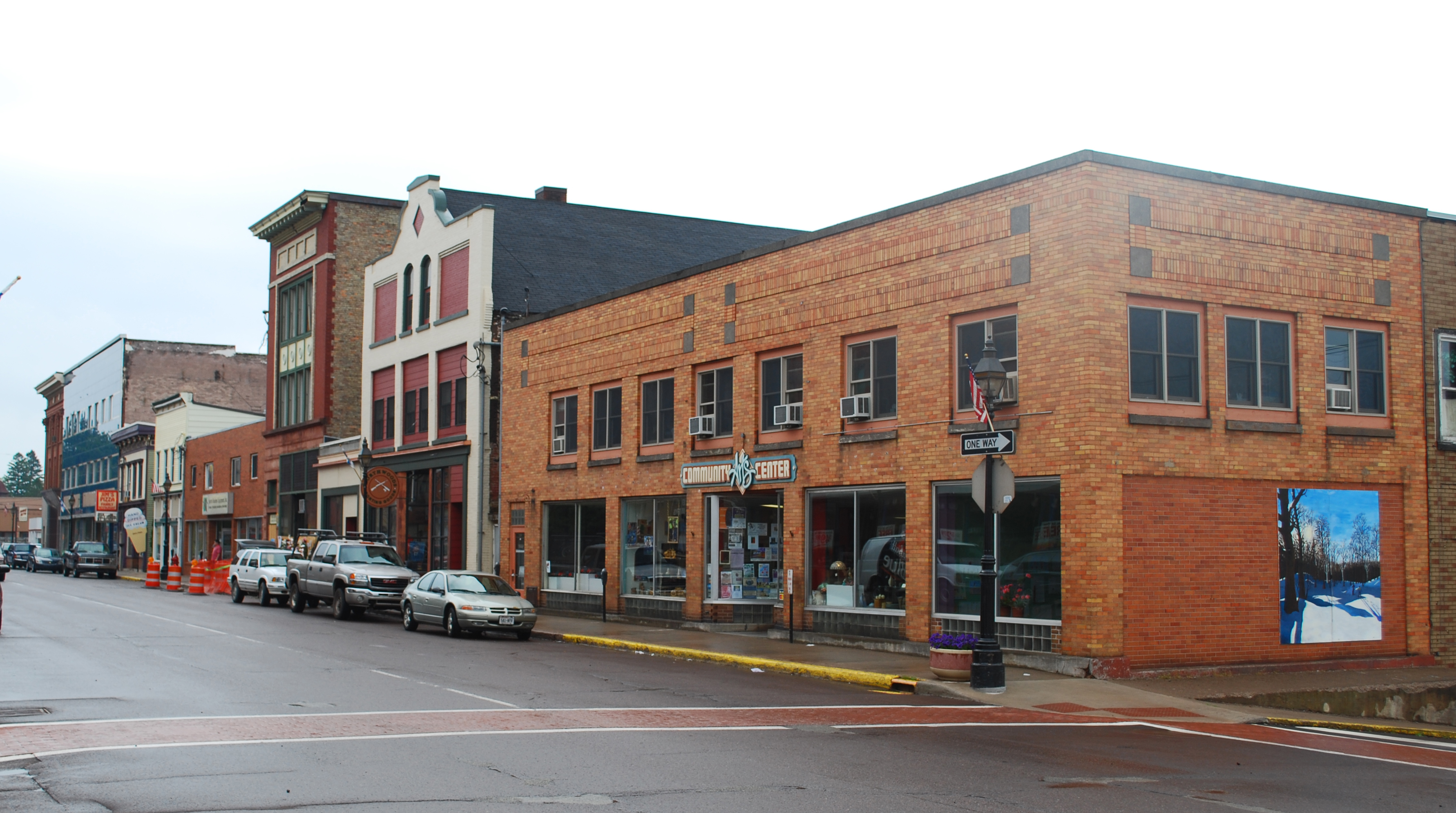 Quincy Street Historic District Hancock MI 100 block South side